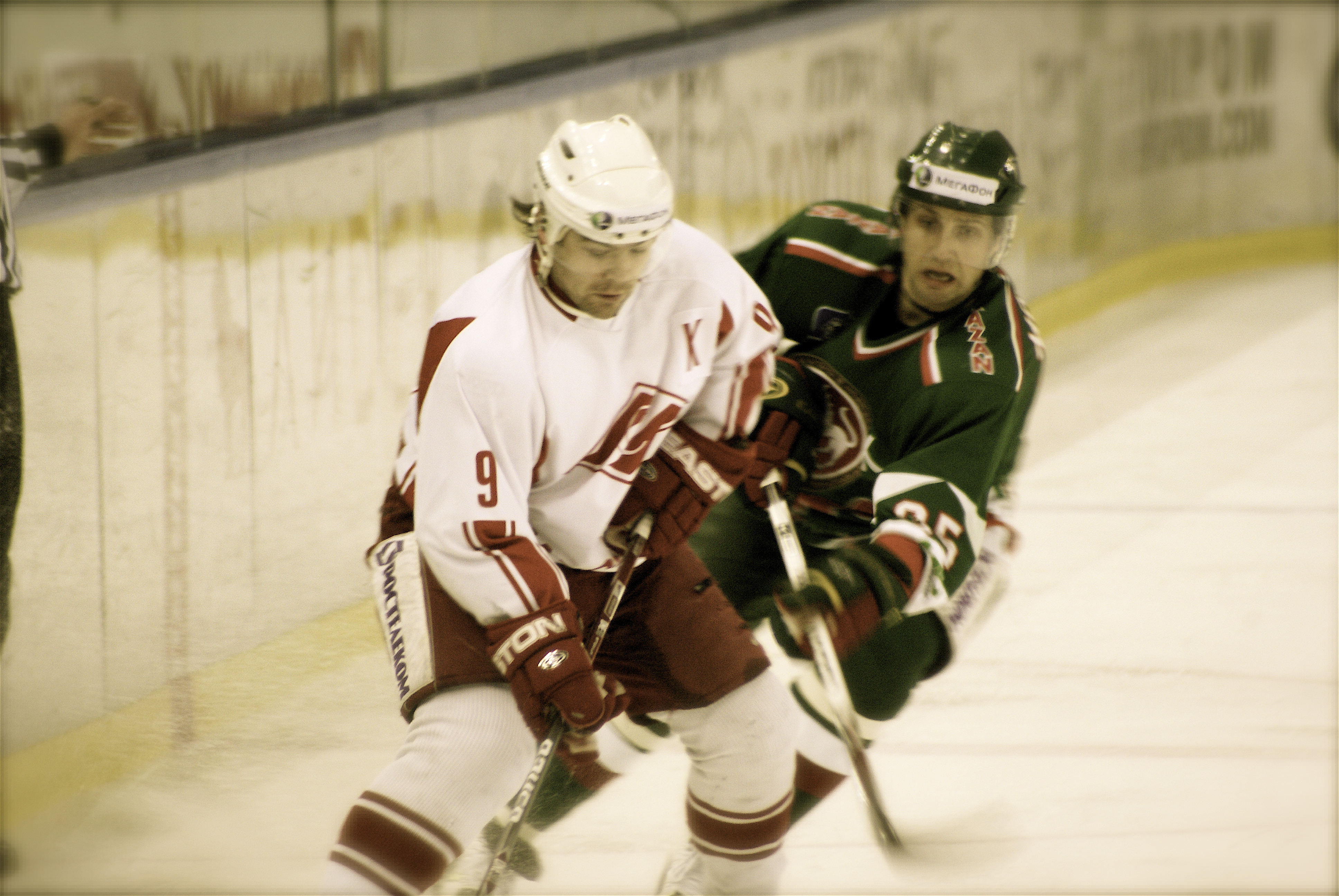 Maxim Rybin (HK Spartak Moskau) versus Aleksey Morzov (Ak Bars Kazan)